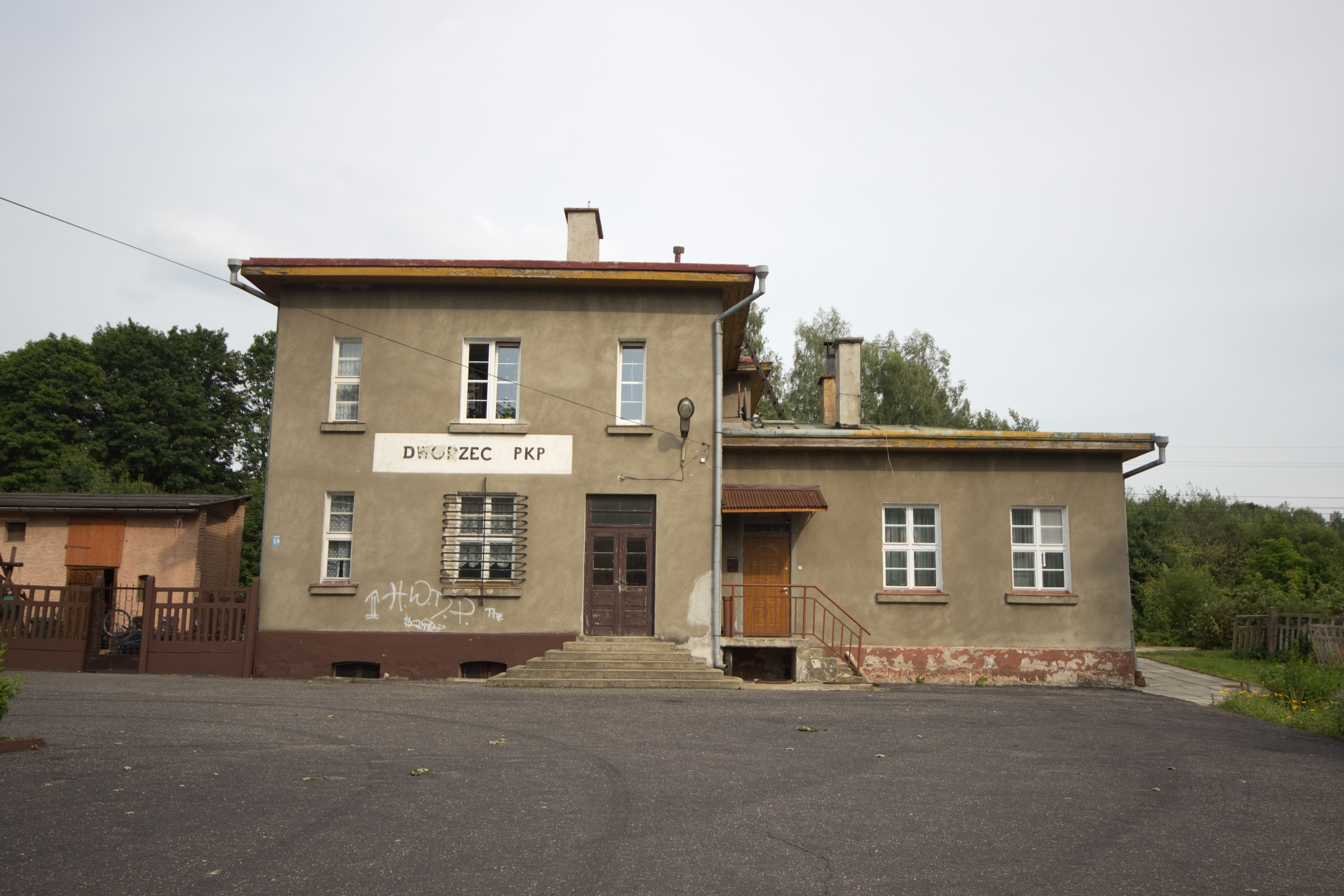 Train station, Górowo, gmina Kolno, powiat olsztyński, Warmian-Masurian Voivodeship